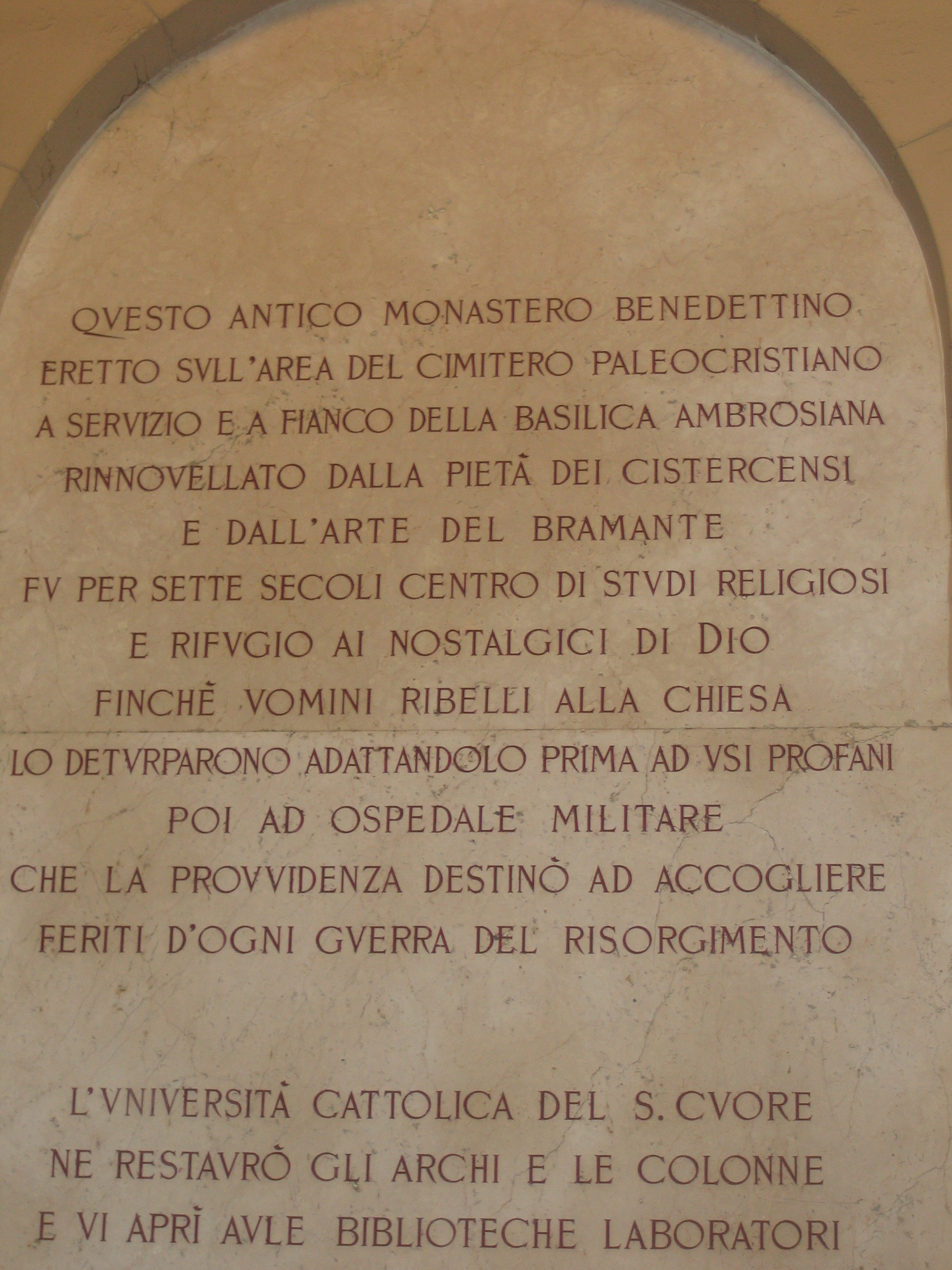 Plaque at entrance of Università Cattolica in Milan.(translation follows)